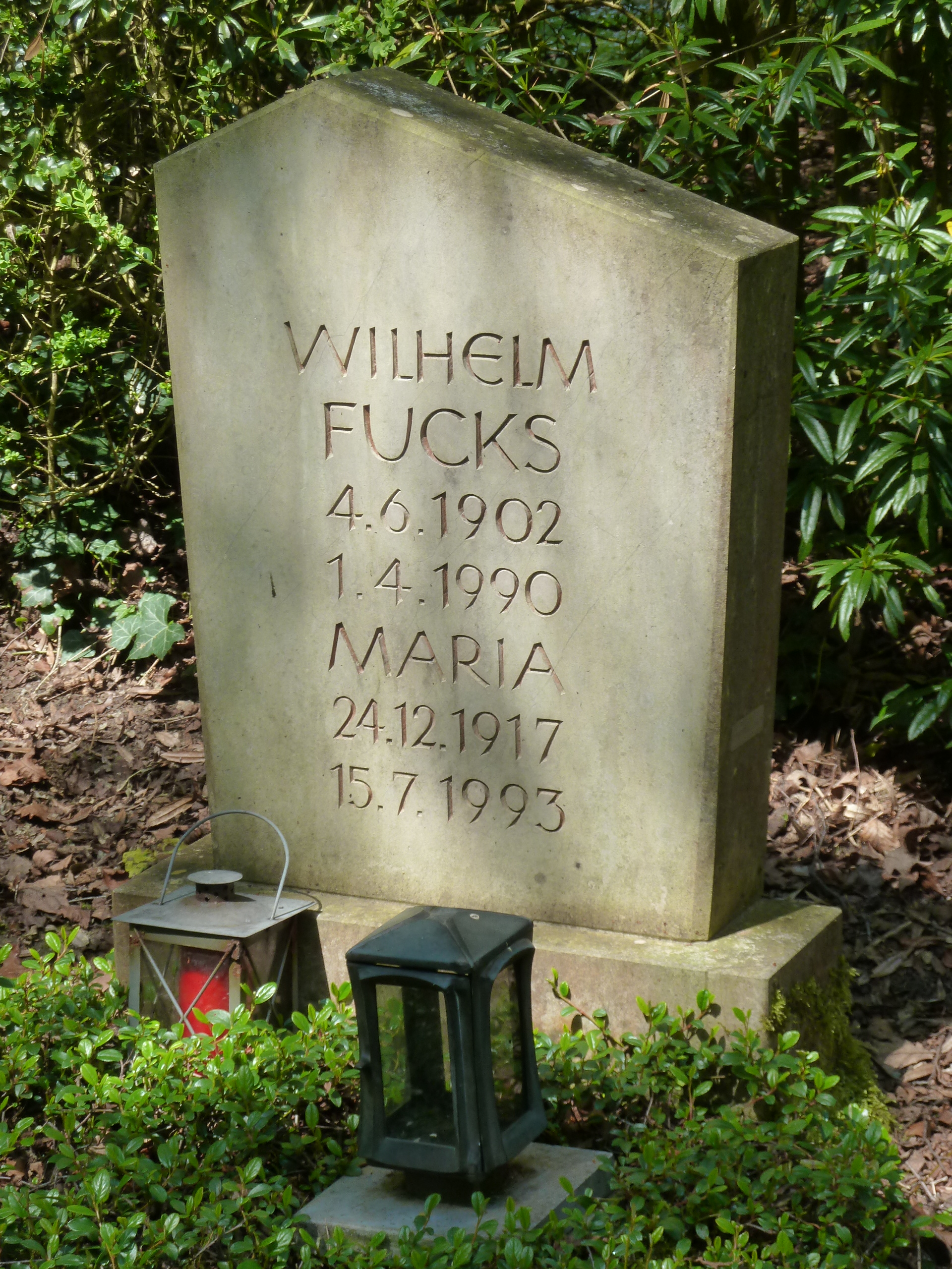 Gravestone at the Waldfriedhof in Aachen, Monschauer Str. 65, field 6, tomb 100